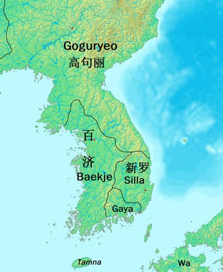 375年的朝鲜三国